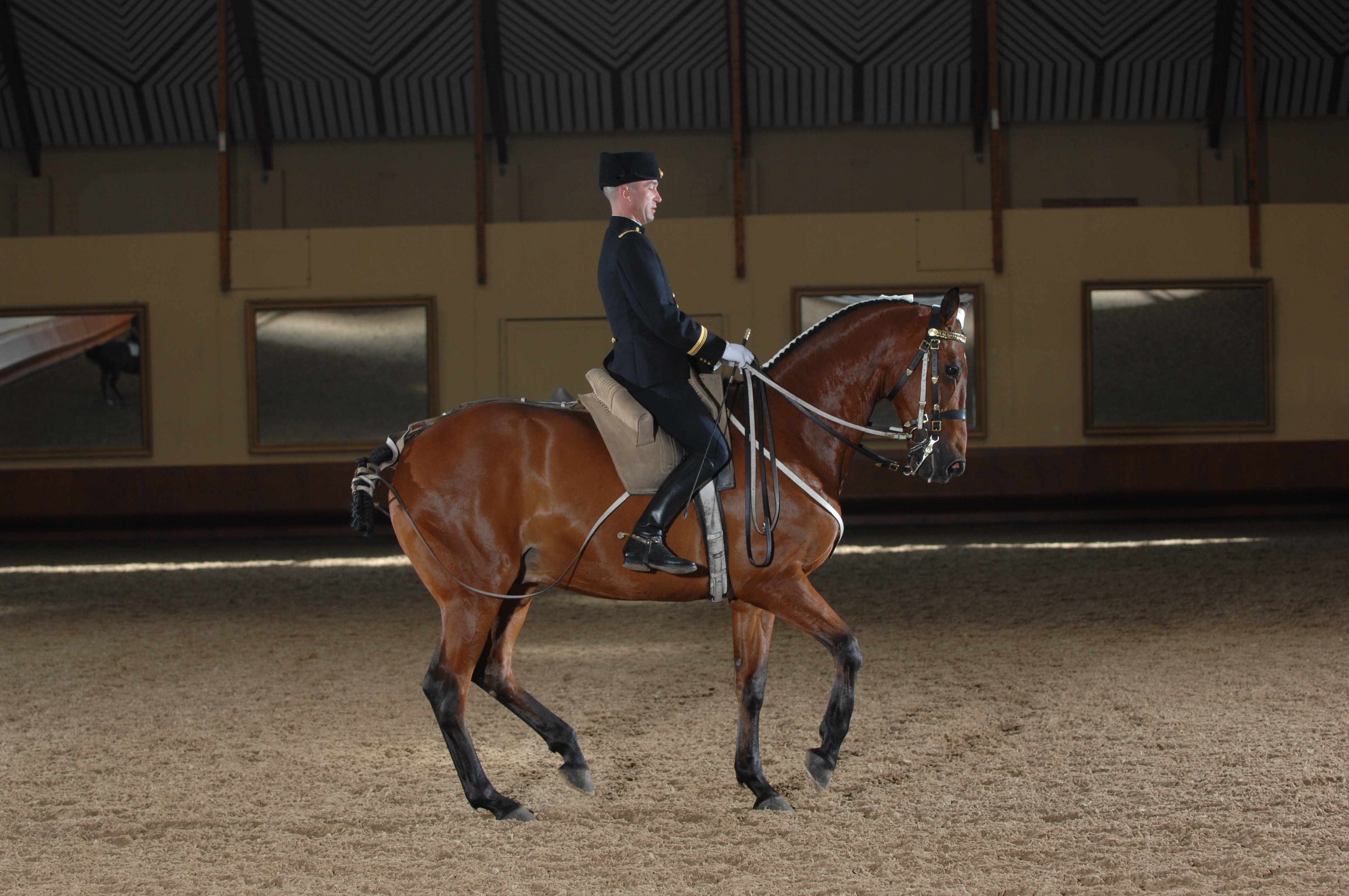 This photograph was taken by a Wikipedian, or provided by the Cadre noir, during a special day in May 2012 English | français | +/−